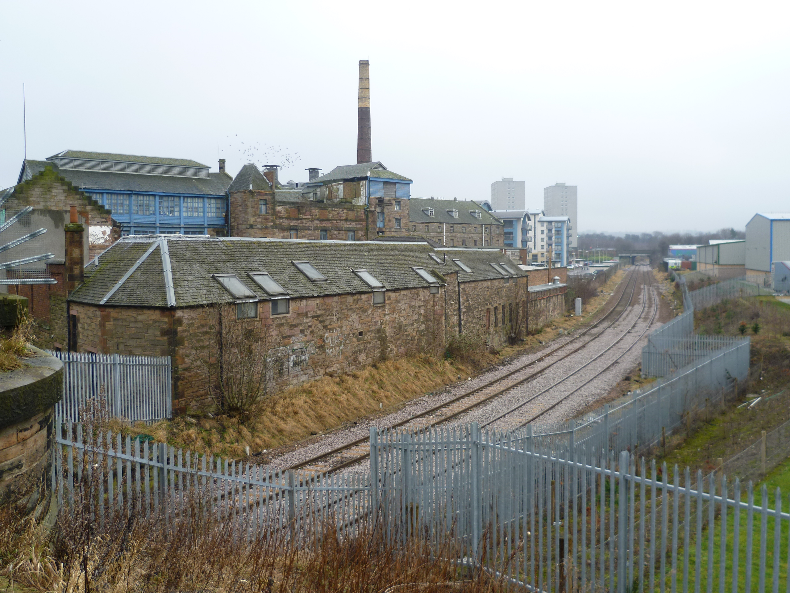 The railway passes the former Drybrough Brewery which is now part of a business park.